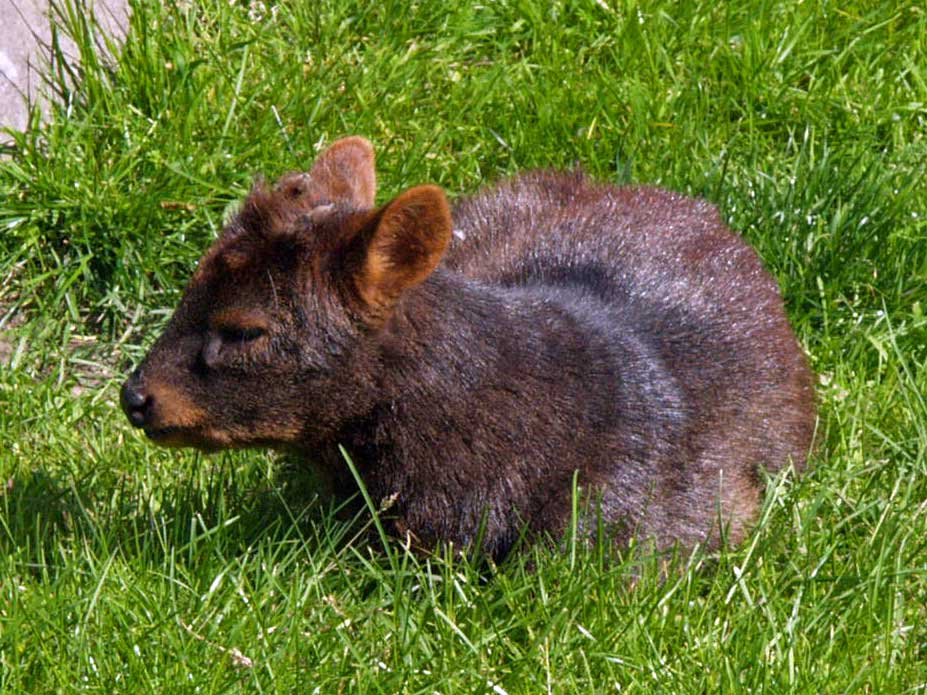 Pudú (Pudu pudu)